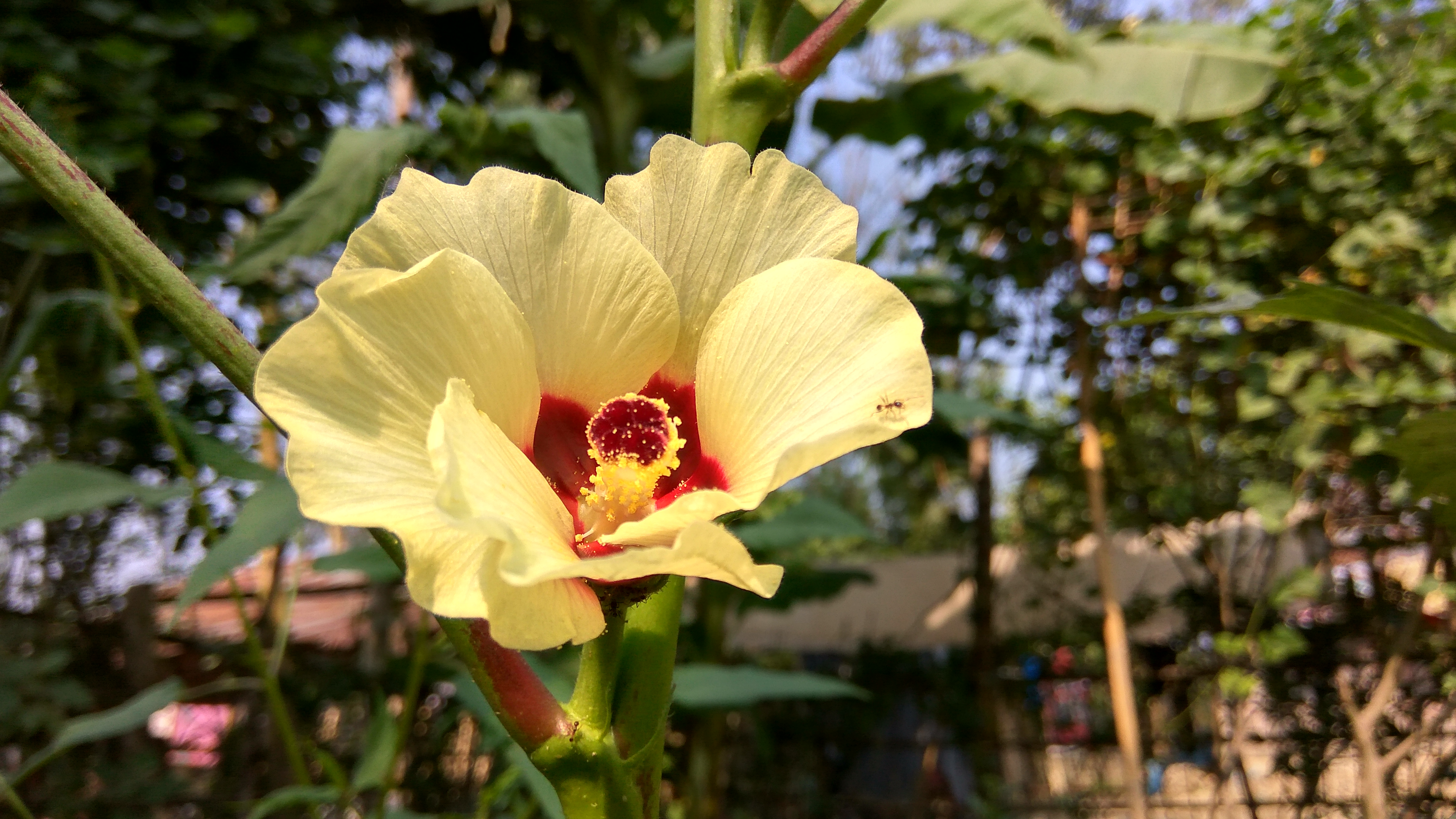 Okra fruit & flower